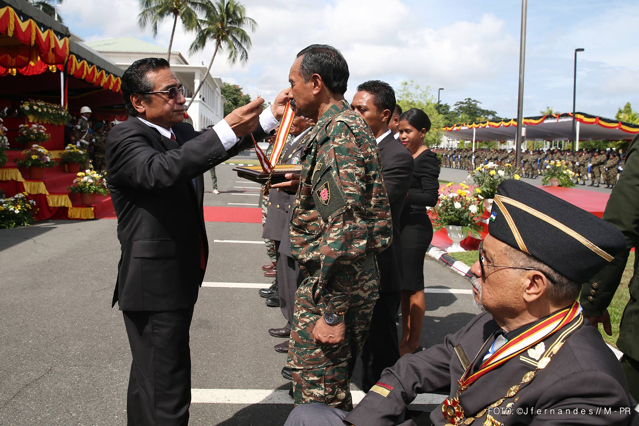 Cornélio Ximenes receives the order of Timor-Leste from Francisco Guterres